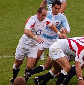 England Argentina